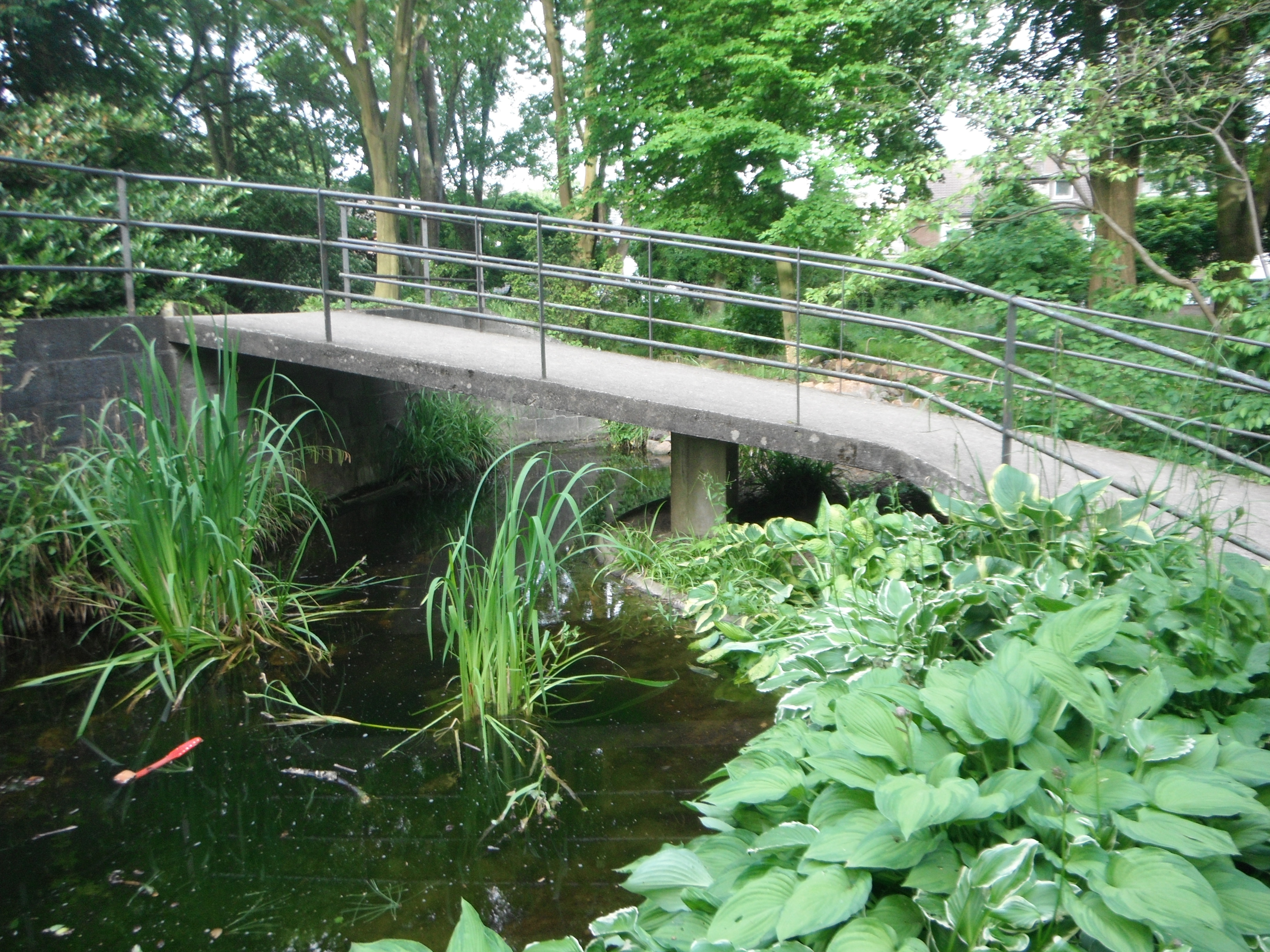 Botanical Garden Neuss